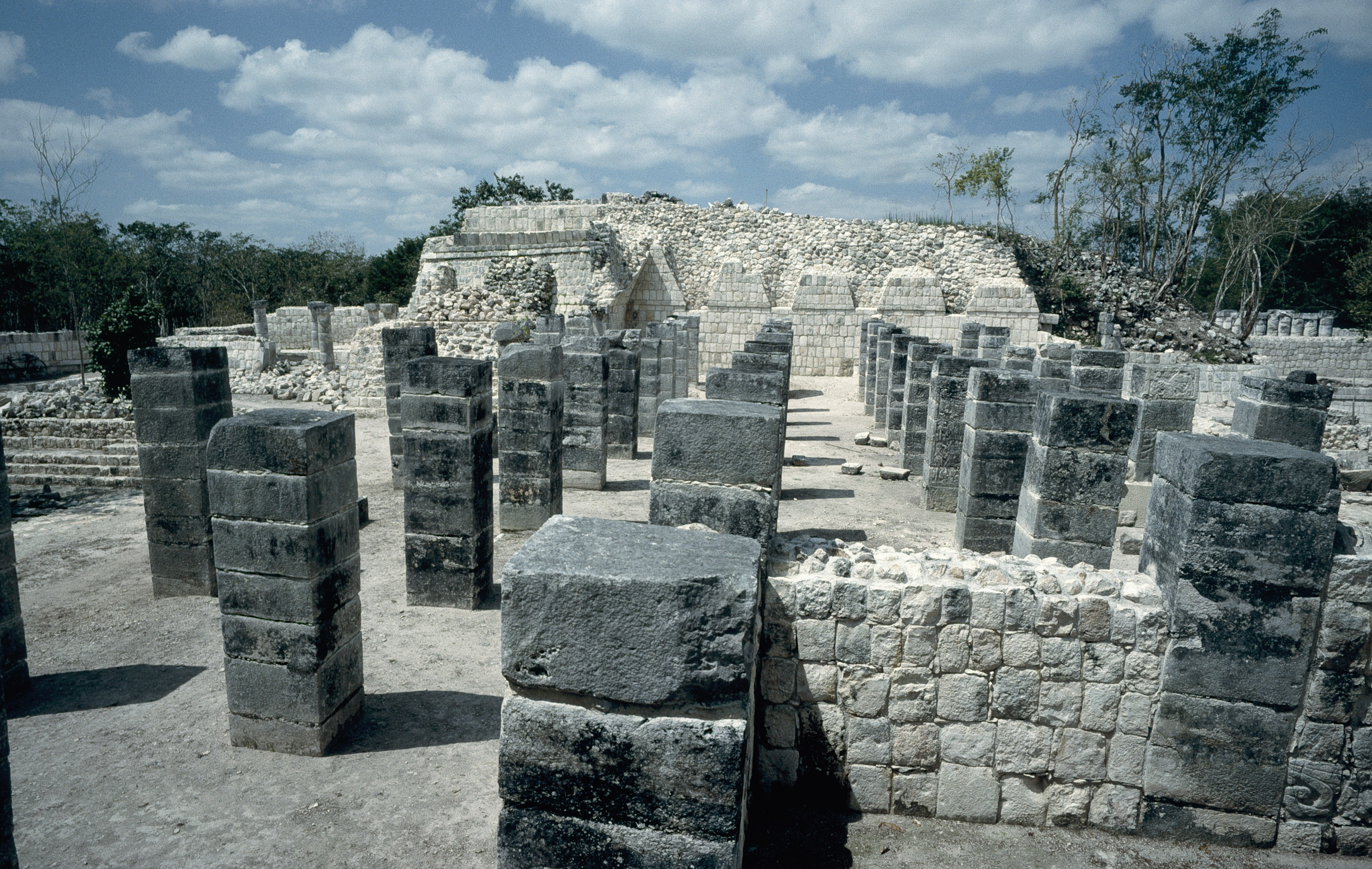 Chichen Itza, Yucatan, Mexico: building 3D5 und hall 3D6